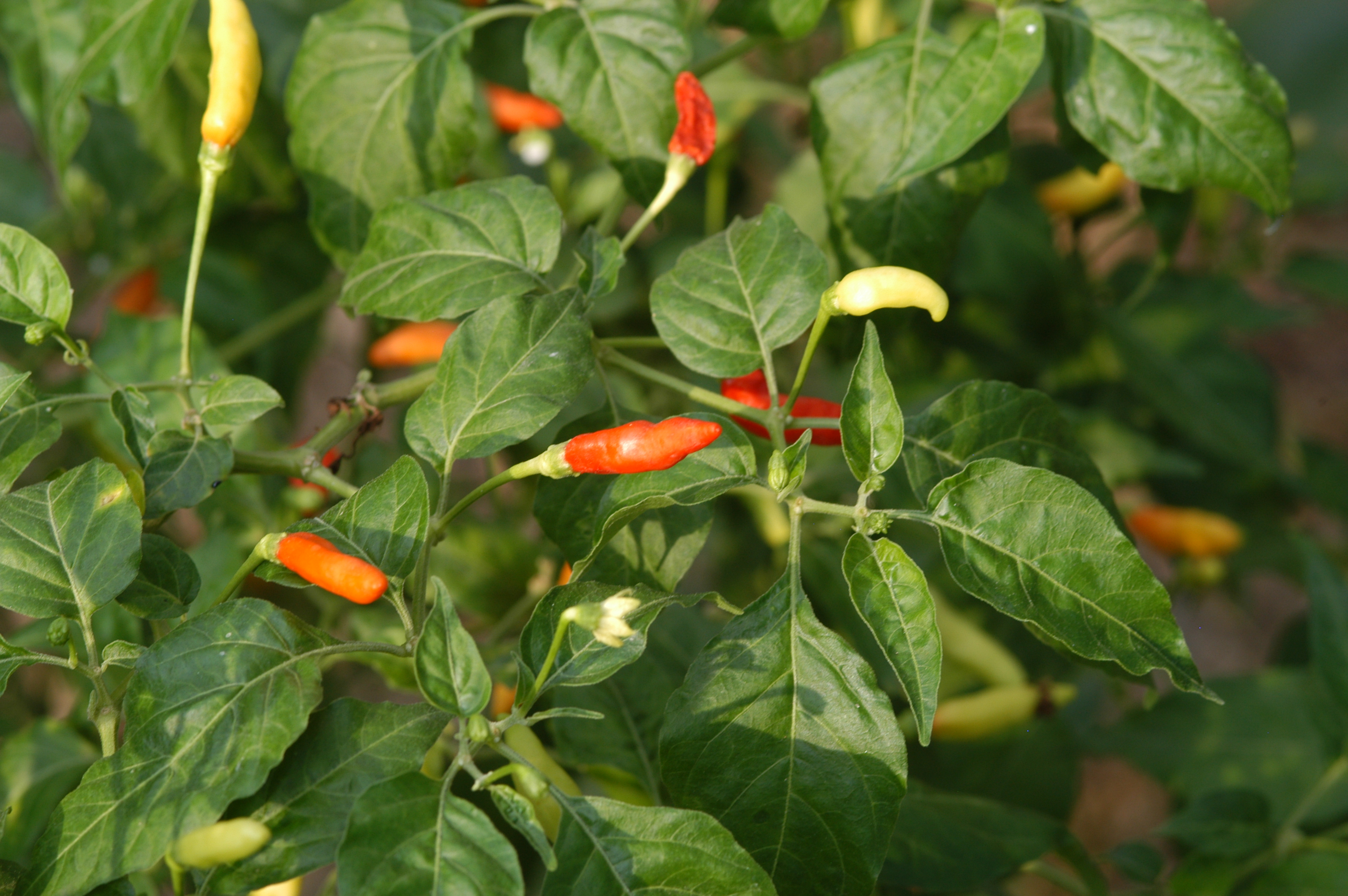 Capsicum frutescens